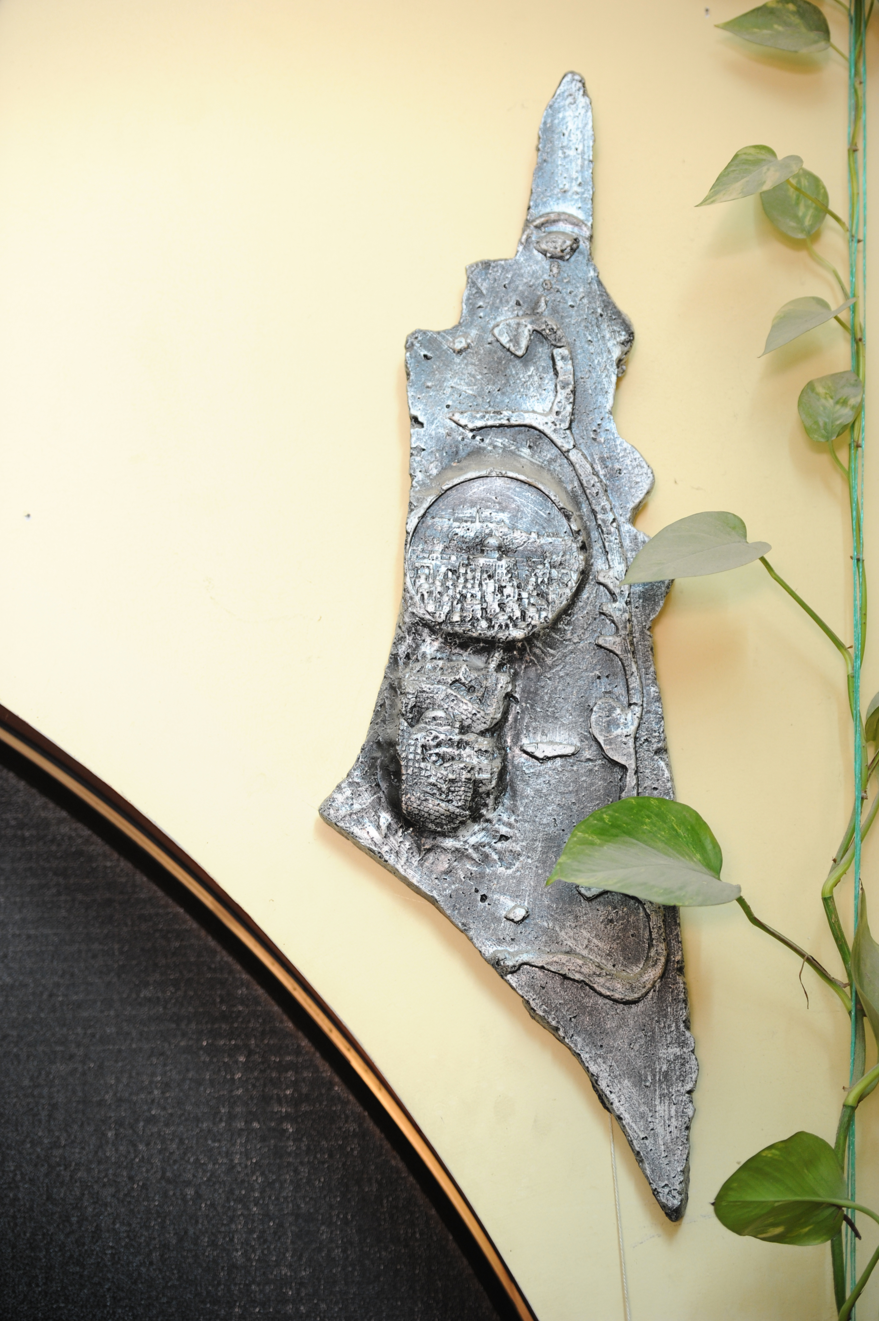 Freedom Theatre in Jenin, West Bank